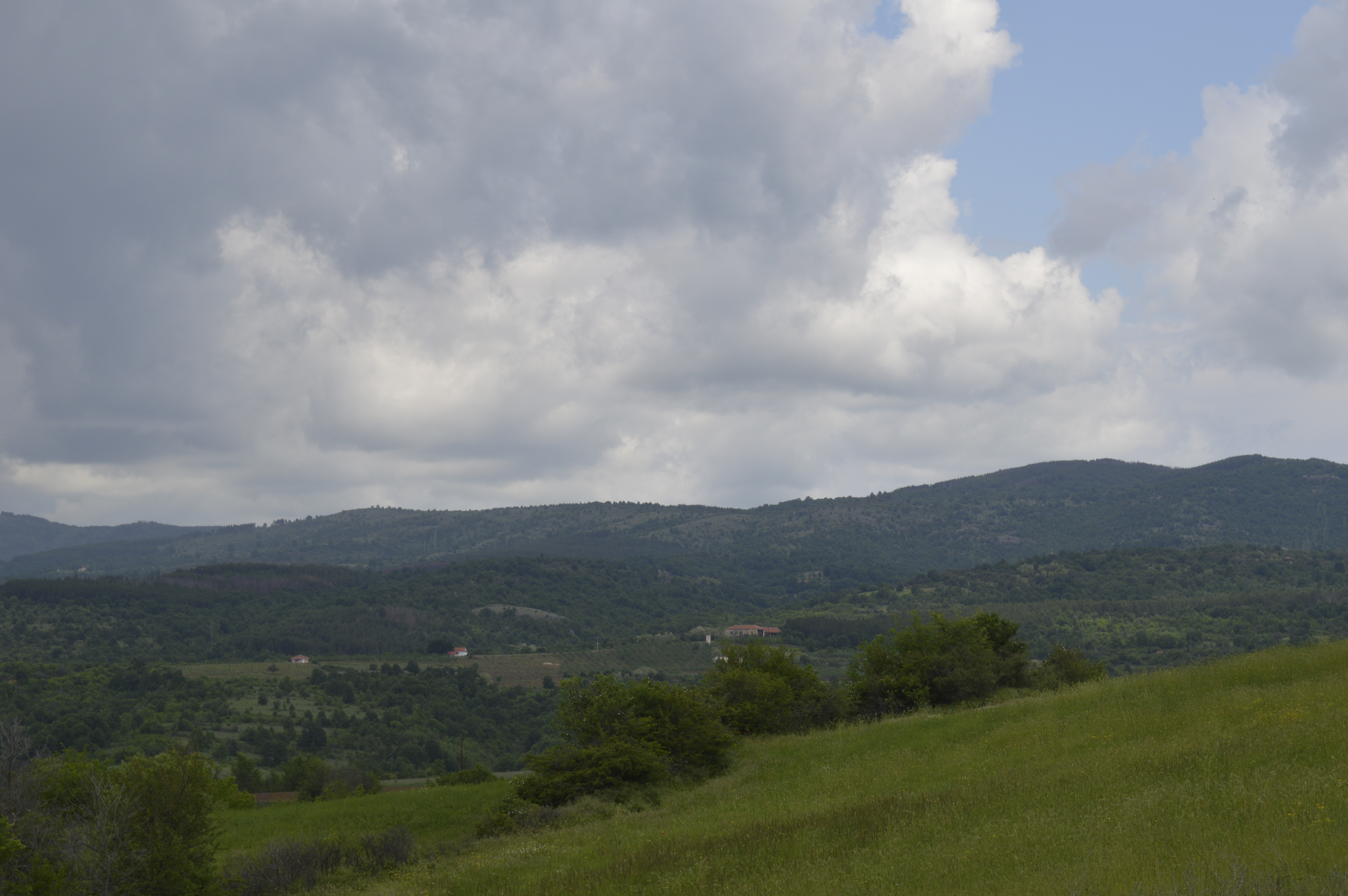 View of the village Očipala